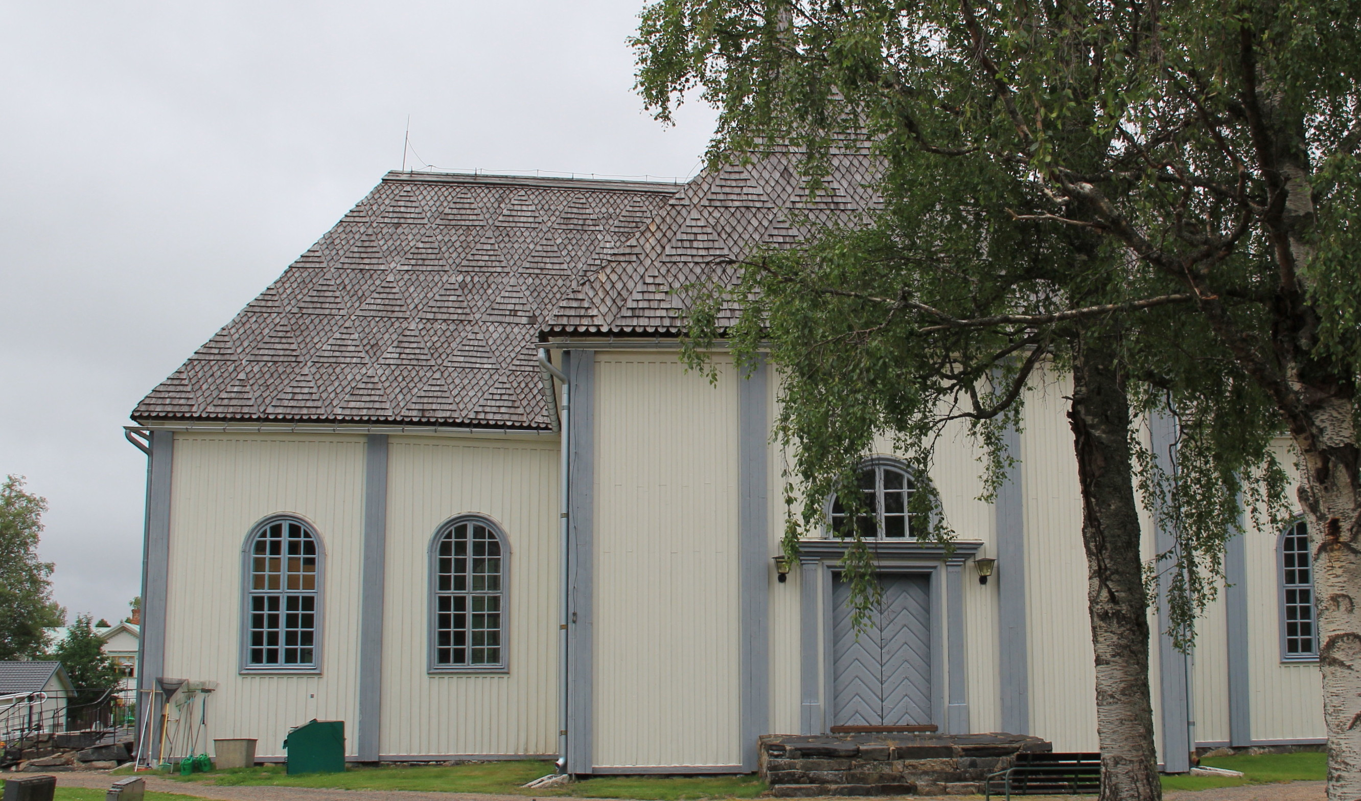 Karl Gustavs church, Karungi, Haparanda, Sweden.